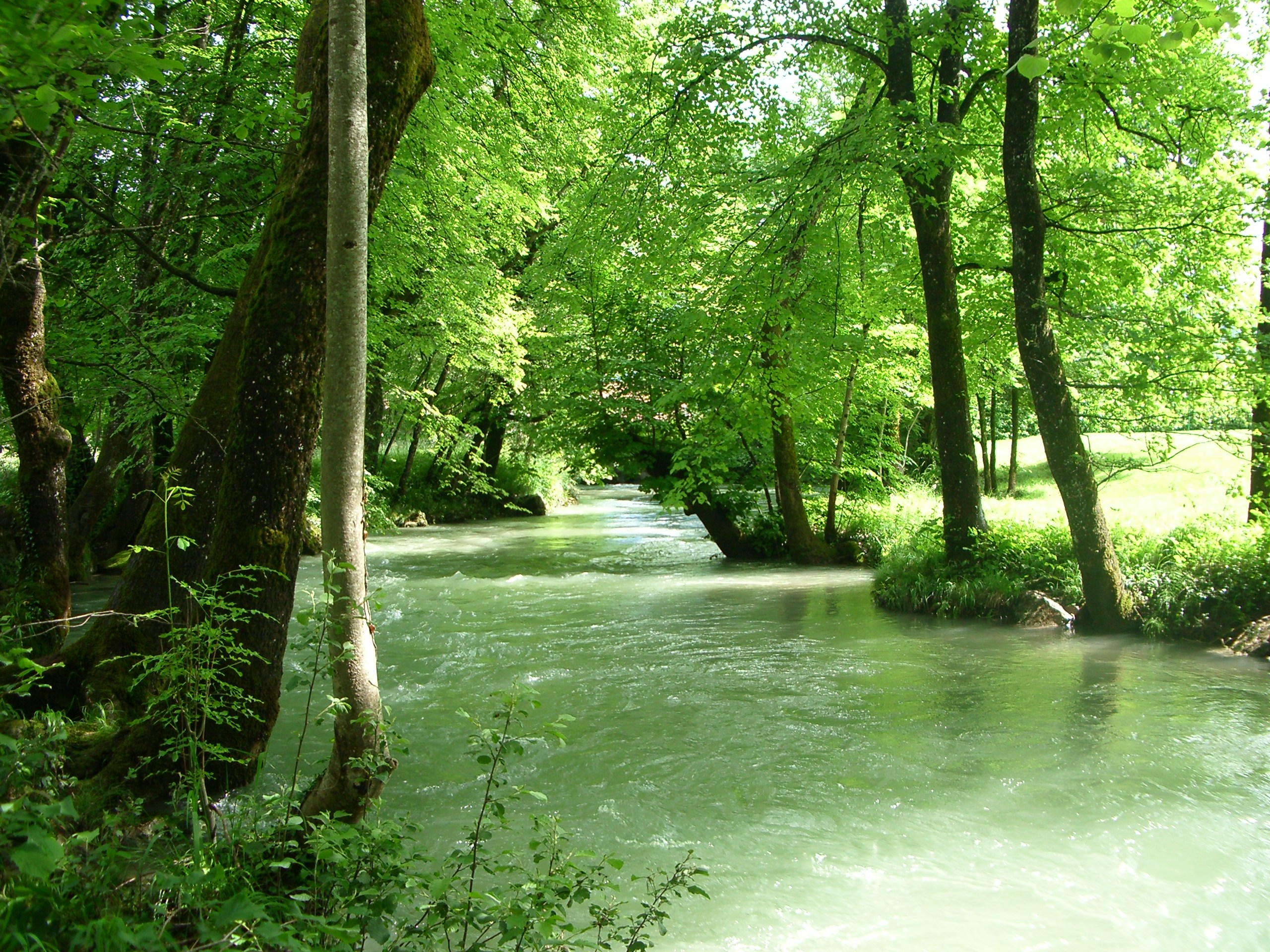 Eau morte River near Verthier, France